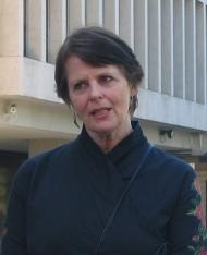 Crop of this image - Australian Democrats Senator Lyn Allison talks to the ABC cameras outside Treasury Building, Melbourne during the Palm Sunday nuclear disarmament rally. She is standing in front of the 100 metre peace banner unfurled for the occasion.